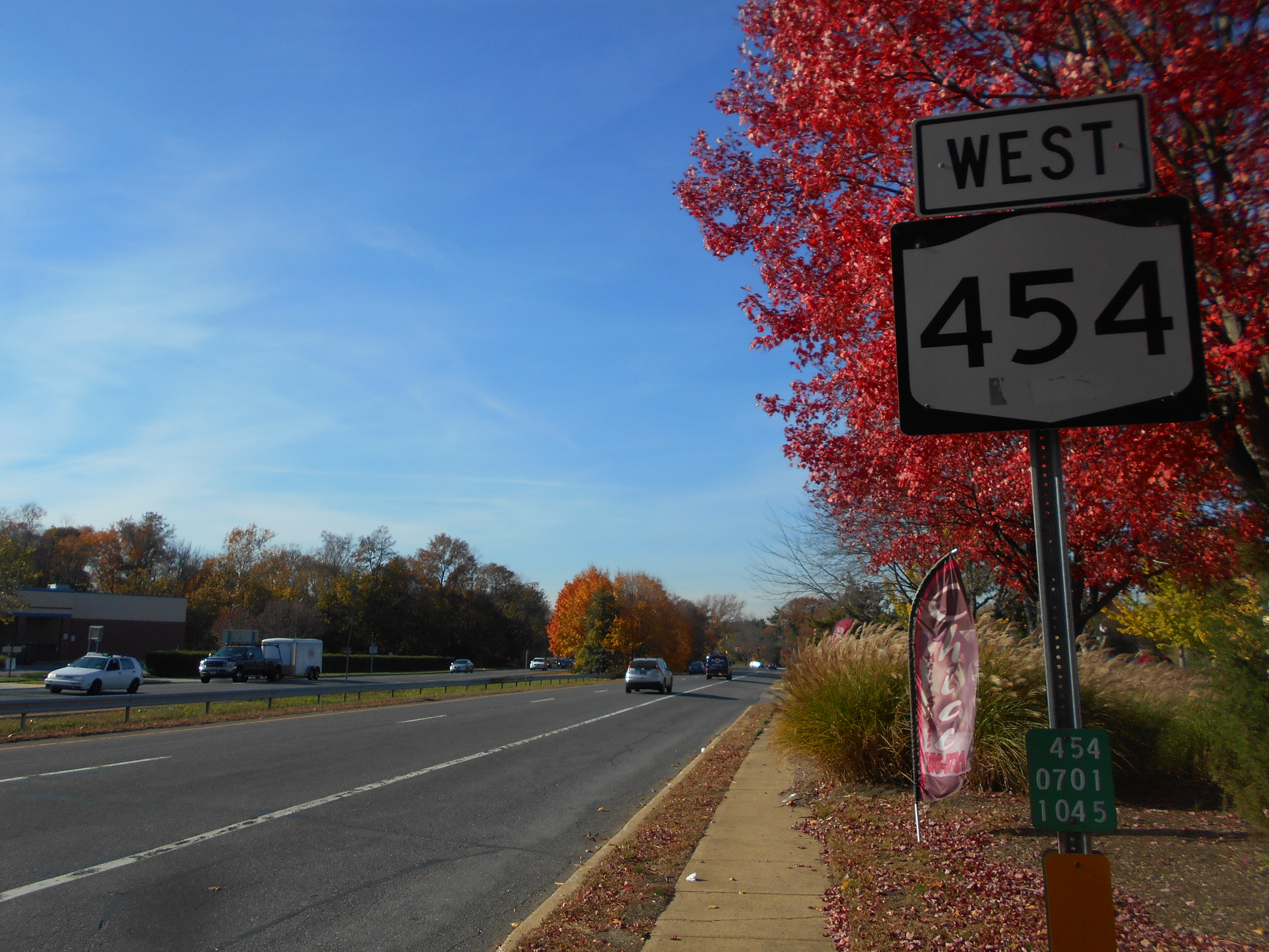 New York State Route 454 westbound between New York State Route 111 and New York State Route 347 in Hauppauge, New York.